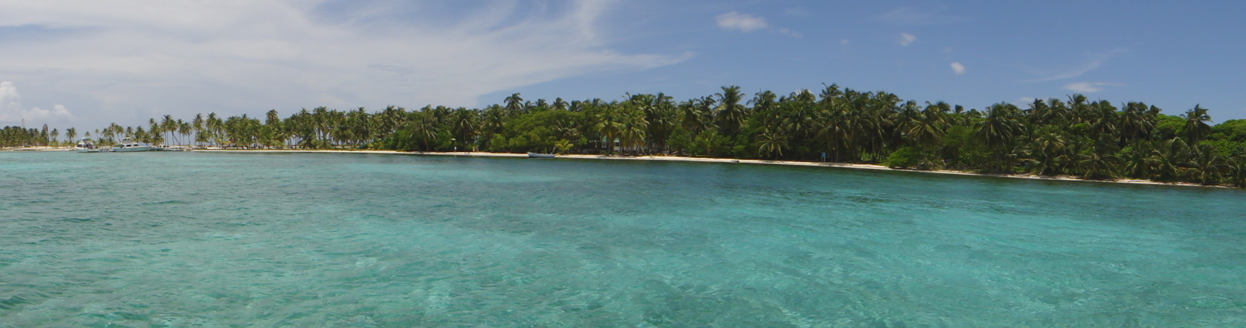 Getting to lighthouse island